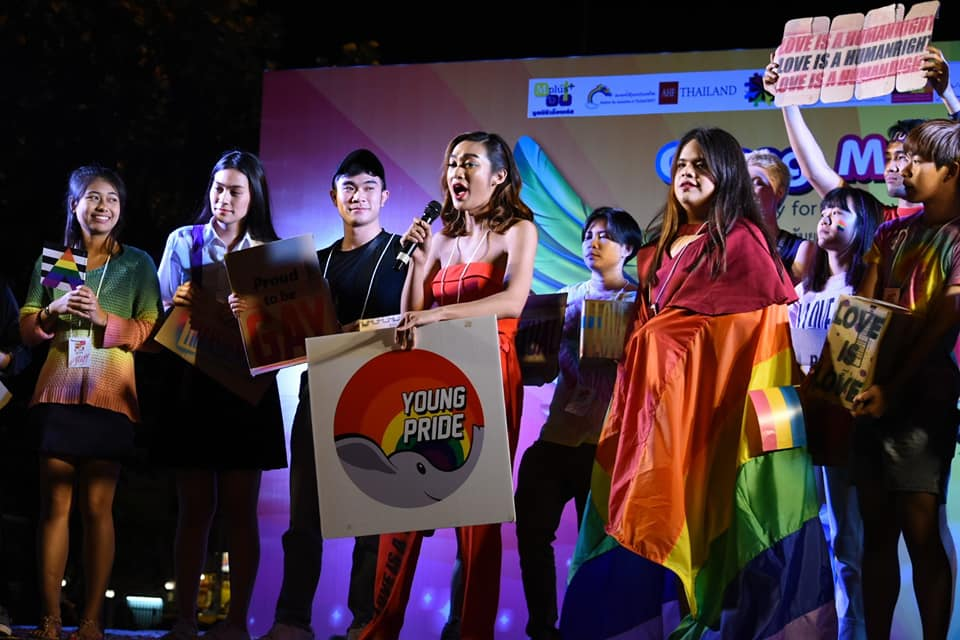 กลุ่ม 'Young Pride Club' เข้าร่วมกิจกรรม กิจกรรมวันยุติความรุนแรงต่อคนที่มีความหลากหลายทางเพศ “Chiang Mai Pride 2019: ๑๐ ปี เสาร์ซาวเอ็ดรำลึก” เมื่อวันที่ 21 ก.พ. 2562 ที่มาภาพ: Young Pride Club